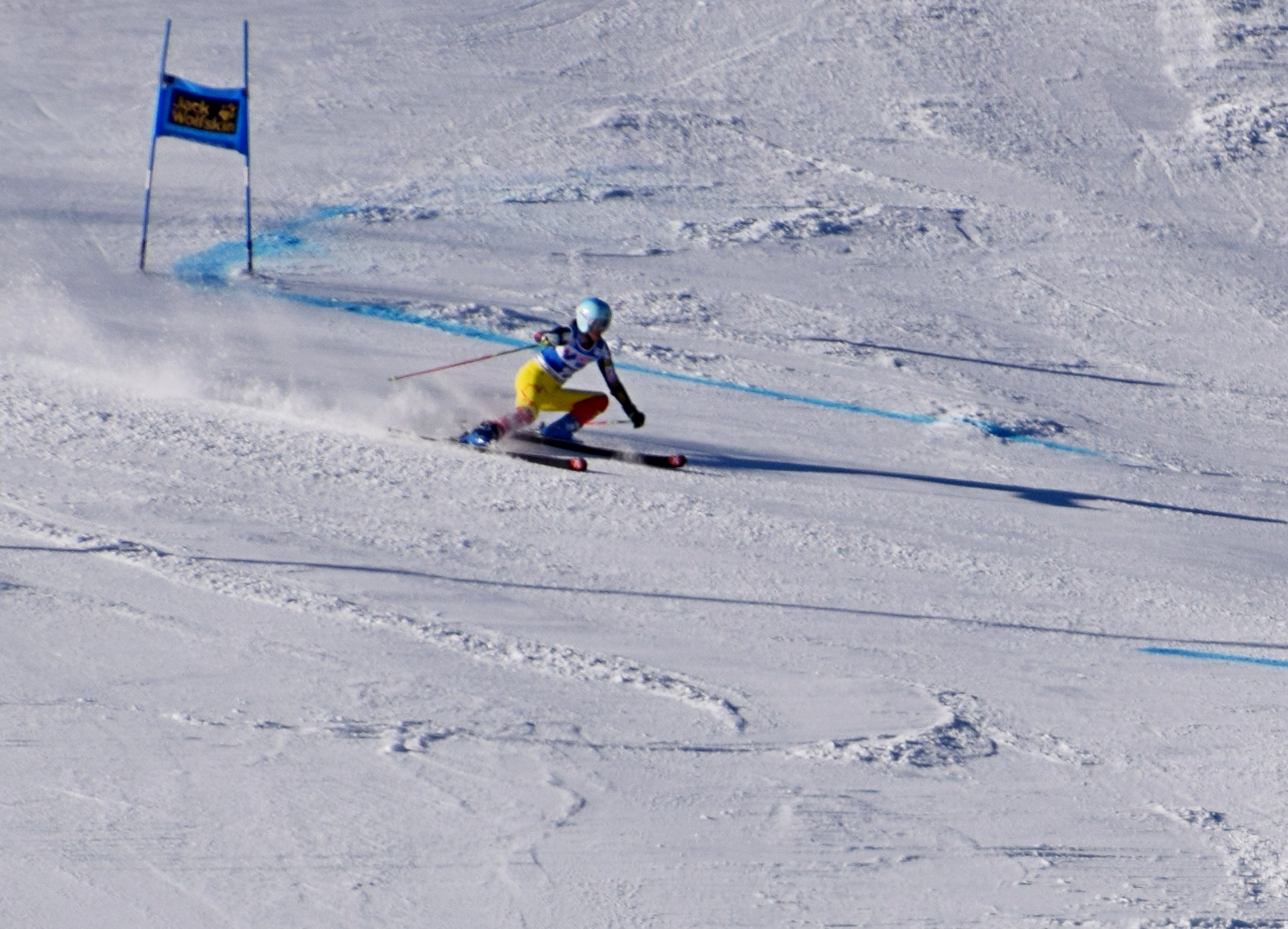 Marie-Michèle Gagnon, 1 run of Giant Slalom, Alpine Skiing World Cup of Women in Courchevel, 20 december 2015